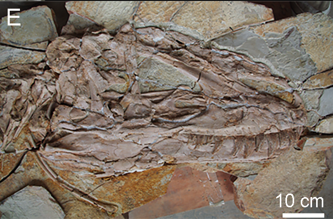 Crop of Fig 6 (Yutyrannus specimen ELDM V1001)